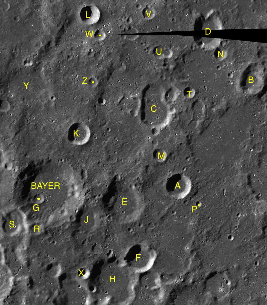 Parts of the charts LAC-111, LAC-125 used for the presentation